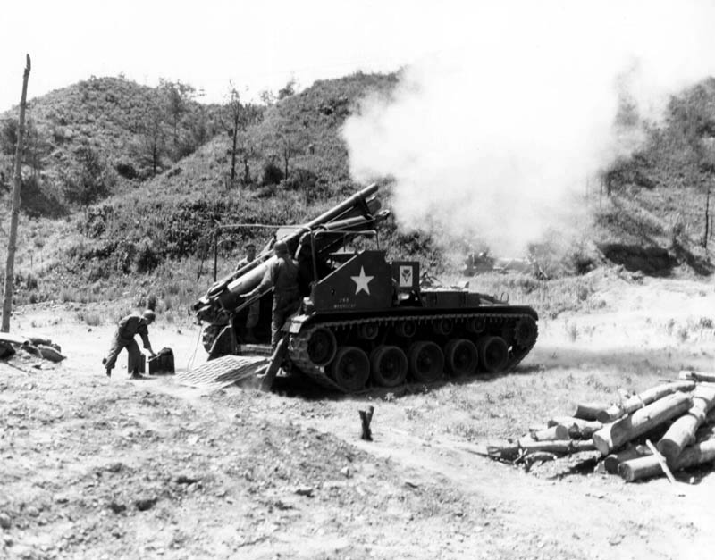 SC404282 - A 155-mm howitzer acting as "base gun" for Battery A, 92nd Armored Field ArtilleryBattalion, U.S. Eighth Army, firing adjusting rounds near Kumhwa, Korea.